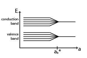 The figure shows the size-dependence on the energy levels of quantum dots due to the quantum confinement effect. The horizontal axis represents the size of the quantum dot and the marked point is the Exciton Bohr radius.